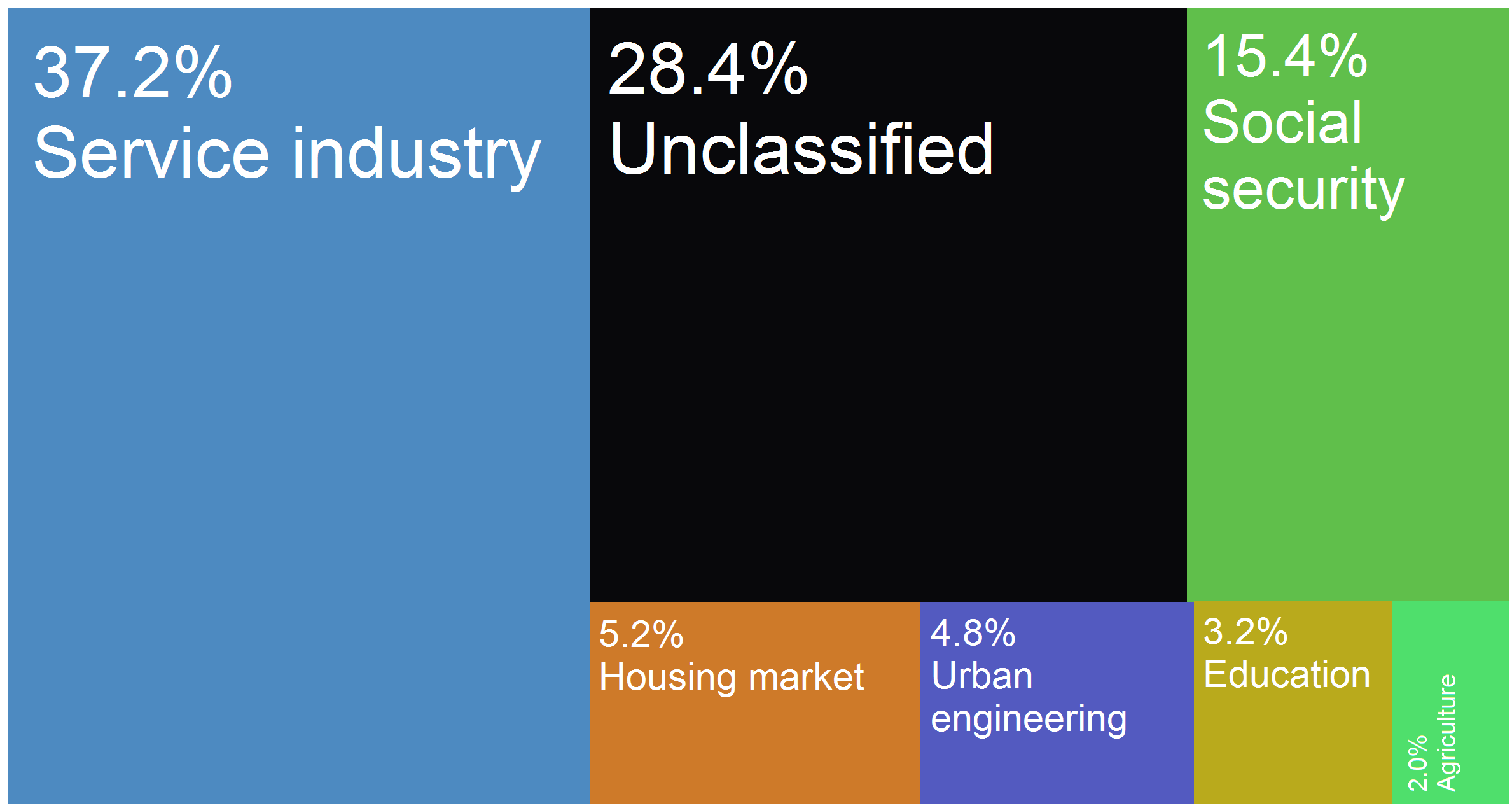 Diagram illustrating the city's budget sources.